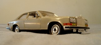 Photo taken by Tom S.